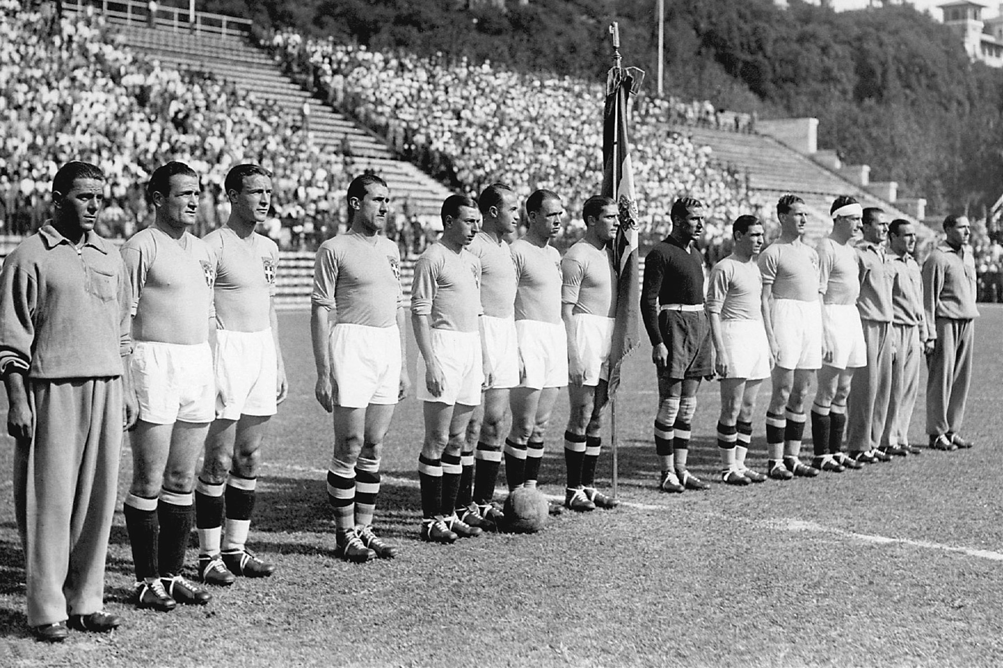 Italian national soccer team players pose for a group picture, 10 June 1934 in Rome, before their World Cup final against Czechoslovakia. Italy won the title beating Czechoslovakia 2-1 in extra time. (From 2nd L : Luis Monti, Eraldo Monzeglio, Angelo Schiavio, Raimundo Orsi, Giovanni Ferrari, Enrique Guaita, Giuseppe Meazza - with flag -, Giampiero Combi, Attilio Ferraris IV, Luigi Allemandi, Luigi Bertolini)